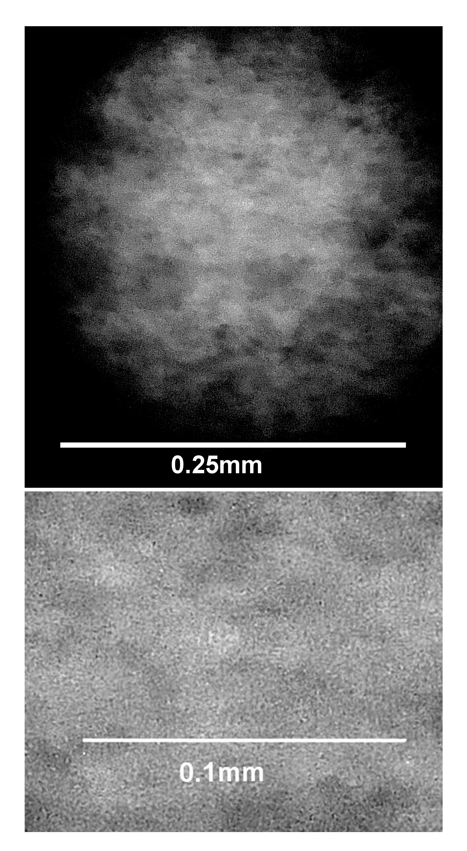 The hologram recorded images of a toy car and van. It was viewed with a high magnification microscope, and the magnified image was photographed with an iphone. The hologram was not bleached.